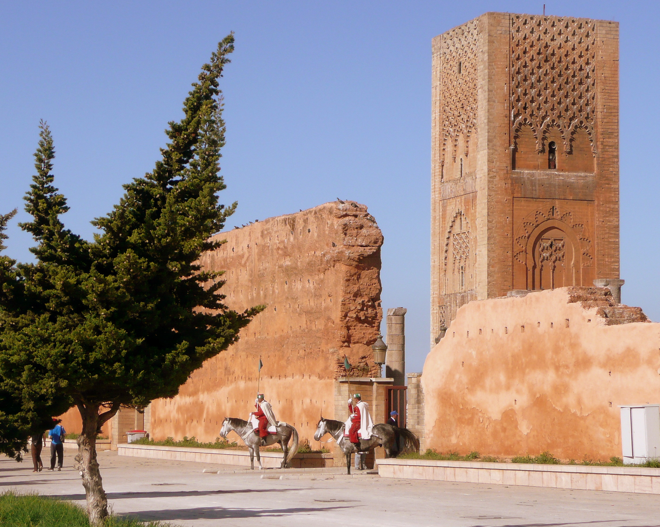 Tour Hassan a Rabat (Maroc)